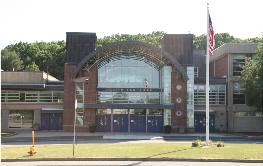 Andover High School, Andover, Massachusetts, 2019